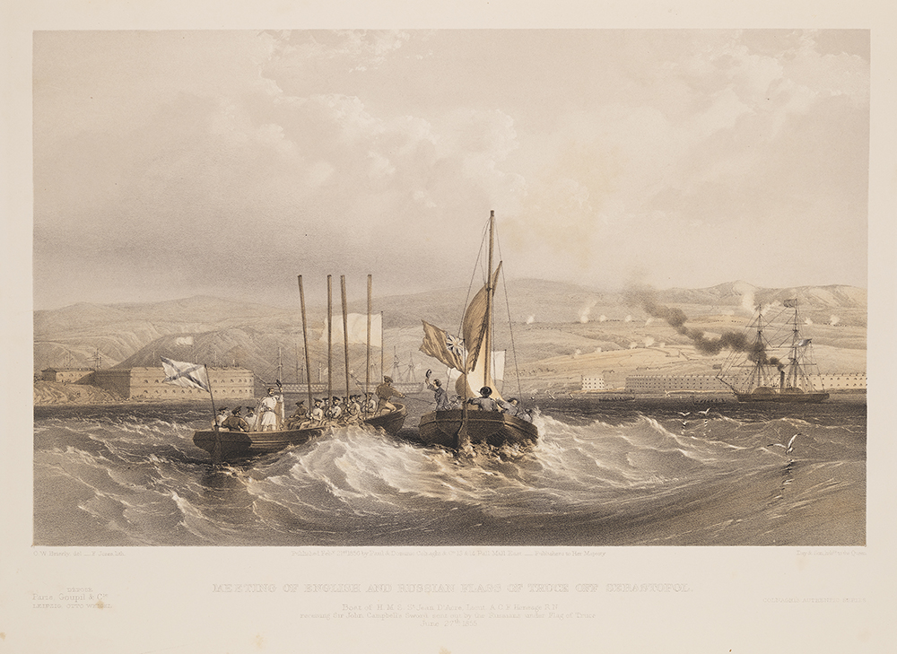 Title: Meeting of English and Russian Flags of Truce off Sebastopol. Creator: Brierly, Oswald Walters, Sir, 1817-1894 (delineator); Jones, F. (lithographer) Date: February 21, 1856 Part of: beautiful scenery and chief places of interest throughout the Crimea from paintings/ Series: Marine & Coast Sketches of the Black Sea/ Place: Sevastopol, Crimea; Black Sea Description: Full title with caption: Meeting of English and Russian Flags of Truce off Sebastopol. Boat of H.M.S. St. Jean D'Acre, Lieut. A.C.F. Heneage R.N receiving Sir John Campbell's Sword sent out by the Russians under Flag of Truce, June 27th 1855 Physical Description: 1 print: lithograph, color, part of 1 volume (65 prints); 26 x 39 cm on 40 x 56 cm File: folio_3_ne2524_b6_32_opt.jpg Rights: Please cite DeGolyer Library, Southern Methodist University when using this file. A high-resolution version of this file may be obtained for a fee. For details see the web page. For other information, . For more information and to view the image in high resolution, View the